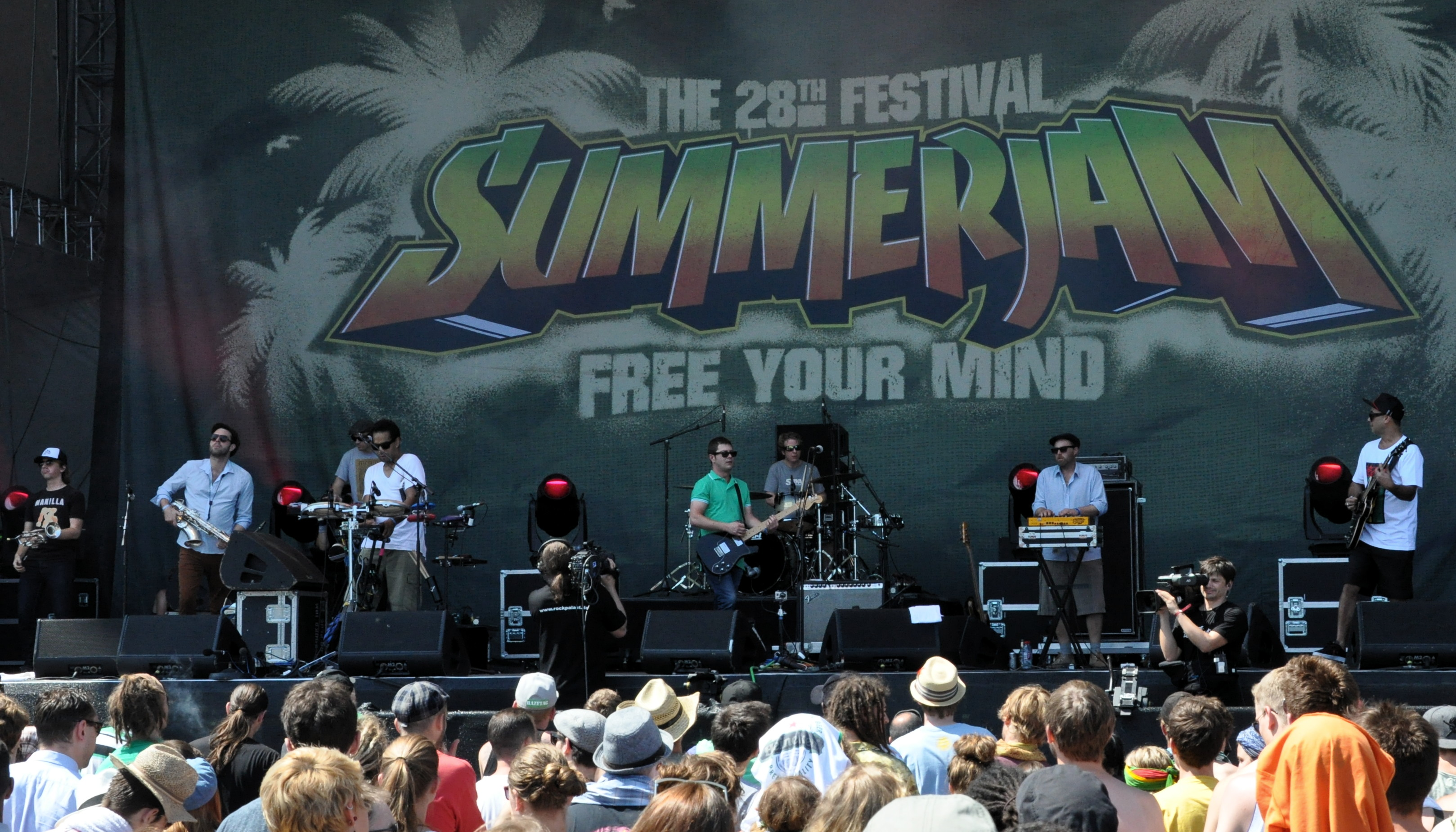 The Black Seeds at Summerjam festival 2013